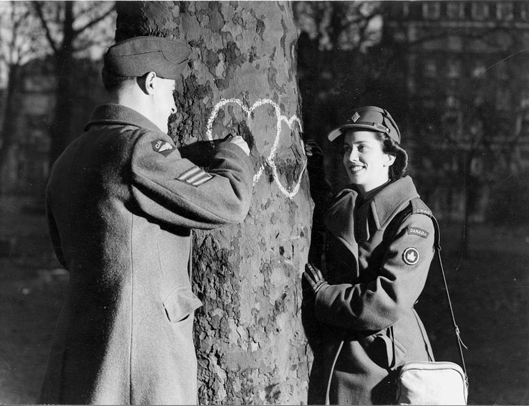 14 February 1944 14 cm x 10.5 cm 1 Black and white photograph Young couple chalking hearts onto a tree. Reproductions: Negative available To obtain high quality and larger reproductions of this image please visit the Galt Museum & Archives website: and include thIs number in your request: P19891053006